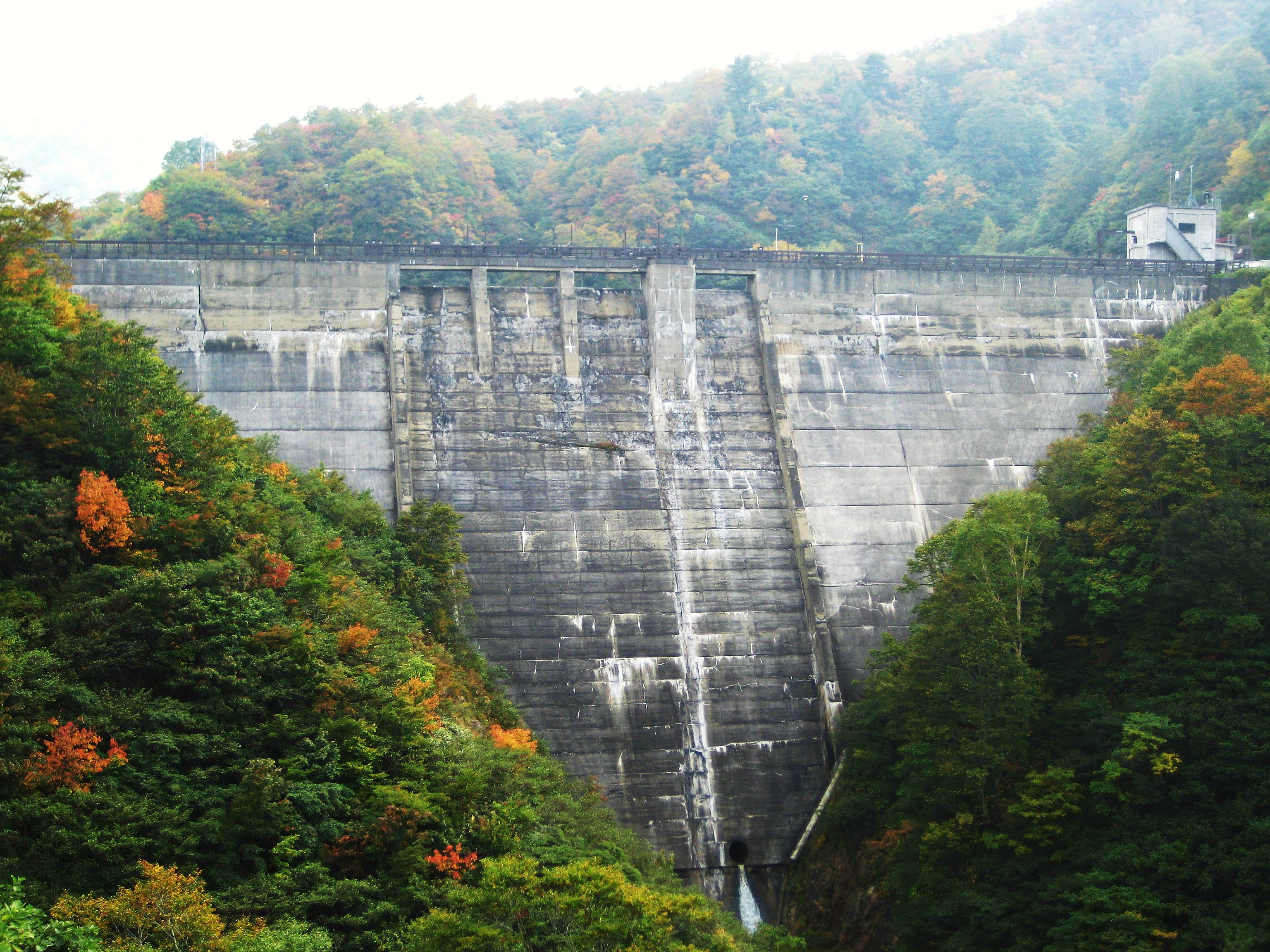 Sukenobu Dam.